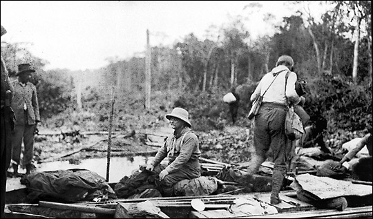 Theodore Roosevelt, 26th US President, seen here wearing a sun helmet, traveled in 1913 to the Amazonian rain forest to trace the River of Doubt later named the Rio Roosevelt. He is seated in the expedition's largest and most reliable dugout canoe. That said, the craft was no match for the river's wild waters and several craft were destroyed by rapids and waterfalls and had to be replaced in the jungle, with only four surviving. TR almost died from the combined effects of malaria and a severe infection. Source - American Museum of Natural History Library Public Domain - National Public Radio program discussing the perilous trip. URL